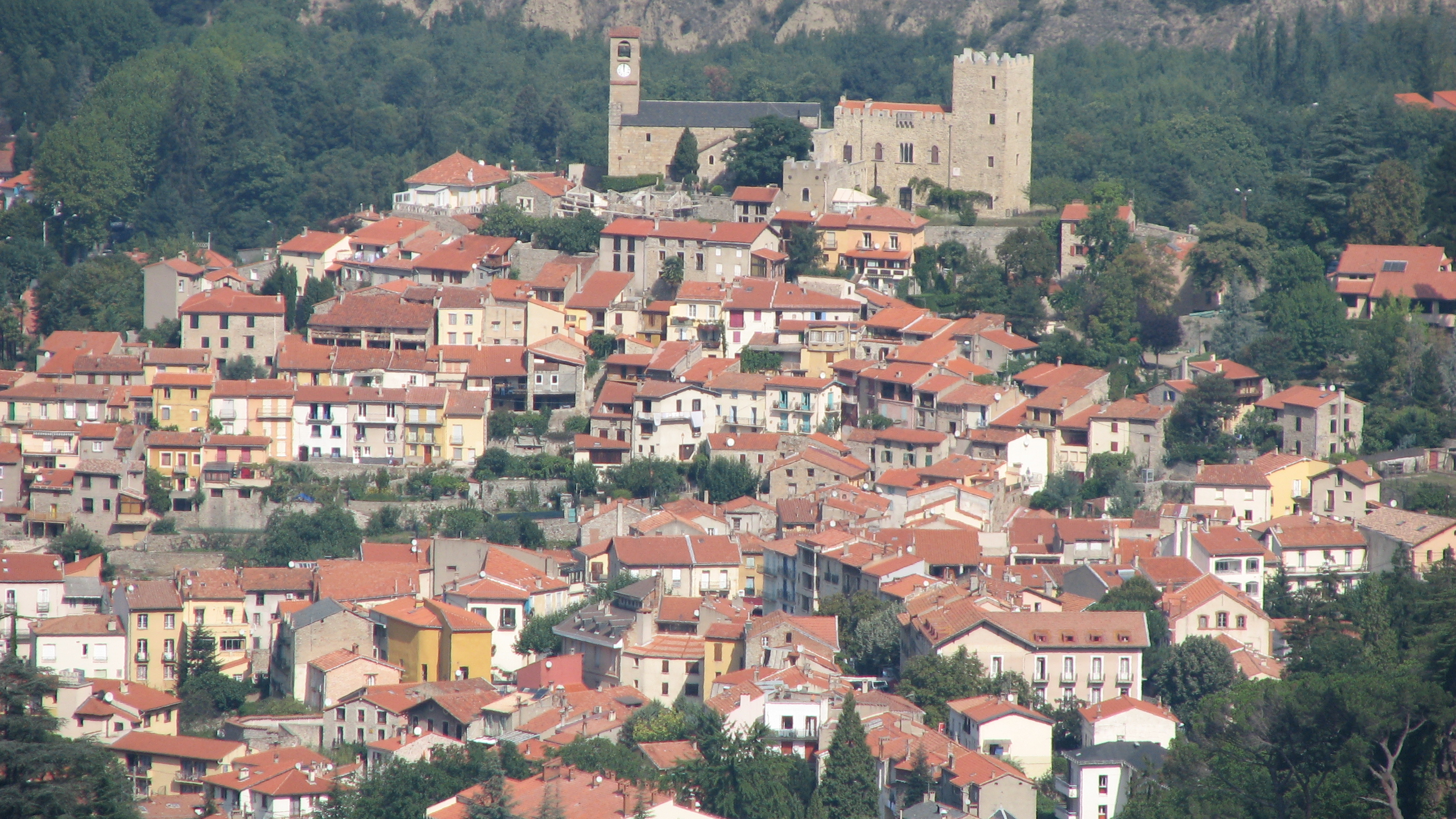 Vernet les Bains - view from the road to Saint-Martin-du-Canigou monastery